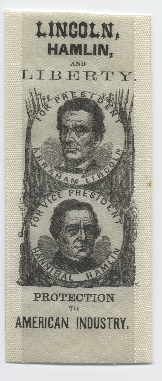 Collection: Cornell University Collection of Political Americana, Cornell University Library Repository: Susan H. Douglas Political Americana Collection, #2214 Rare & Manuscript Collections, Cornell University Library, Cornell University Title: "Lincoln, Hamlin, And Liberty" Portrait Ribbon, ca. 1860 Political Party: Republican Election Year: 1860 Date Made: ca. 1860 Measurement: Ribbon: 6 x 2 1/2 in.; 15.24 x 6.35 cm Classification: Costume Persistent URI: There are no known U.S. copyright restrictions on this image. The digital file is owned by the Cornell University Library which is making it freely available with the request that, when possible, the Library be credited as its source.